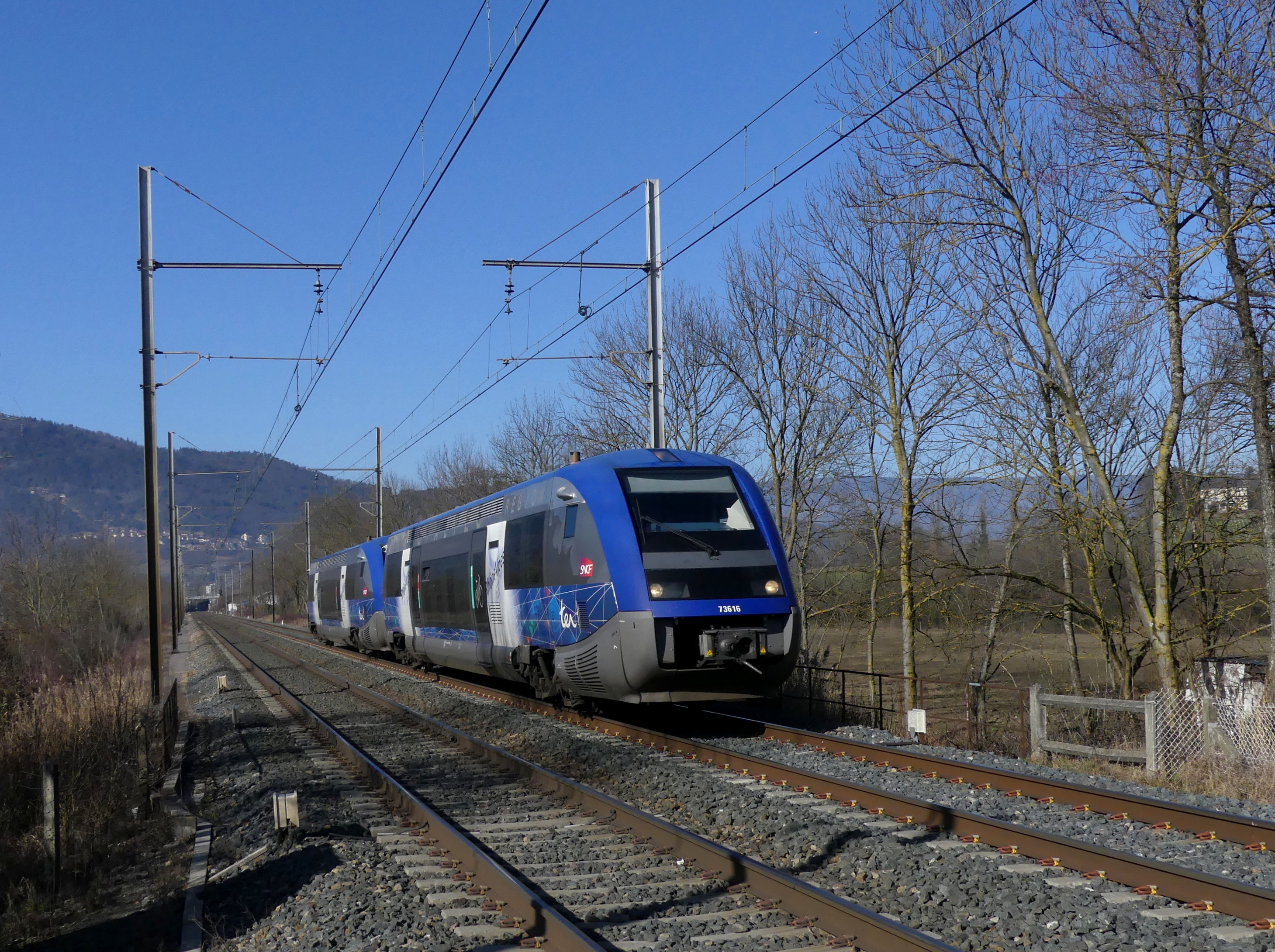 Sight, in winter, of two French SNCF X 73500 trains (also called A-TER trains) on regional journey n° 883713 from Chambéry to Grenoble, a few minutes after leaving Chambéry, in Myans, Savoie.